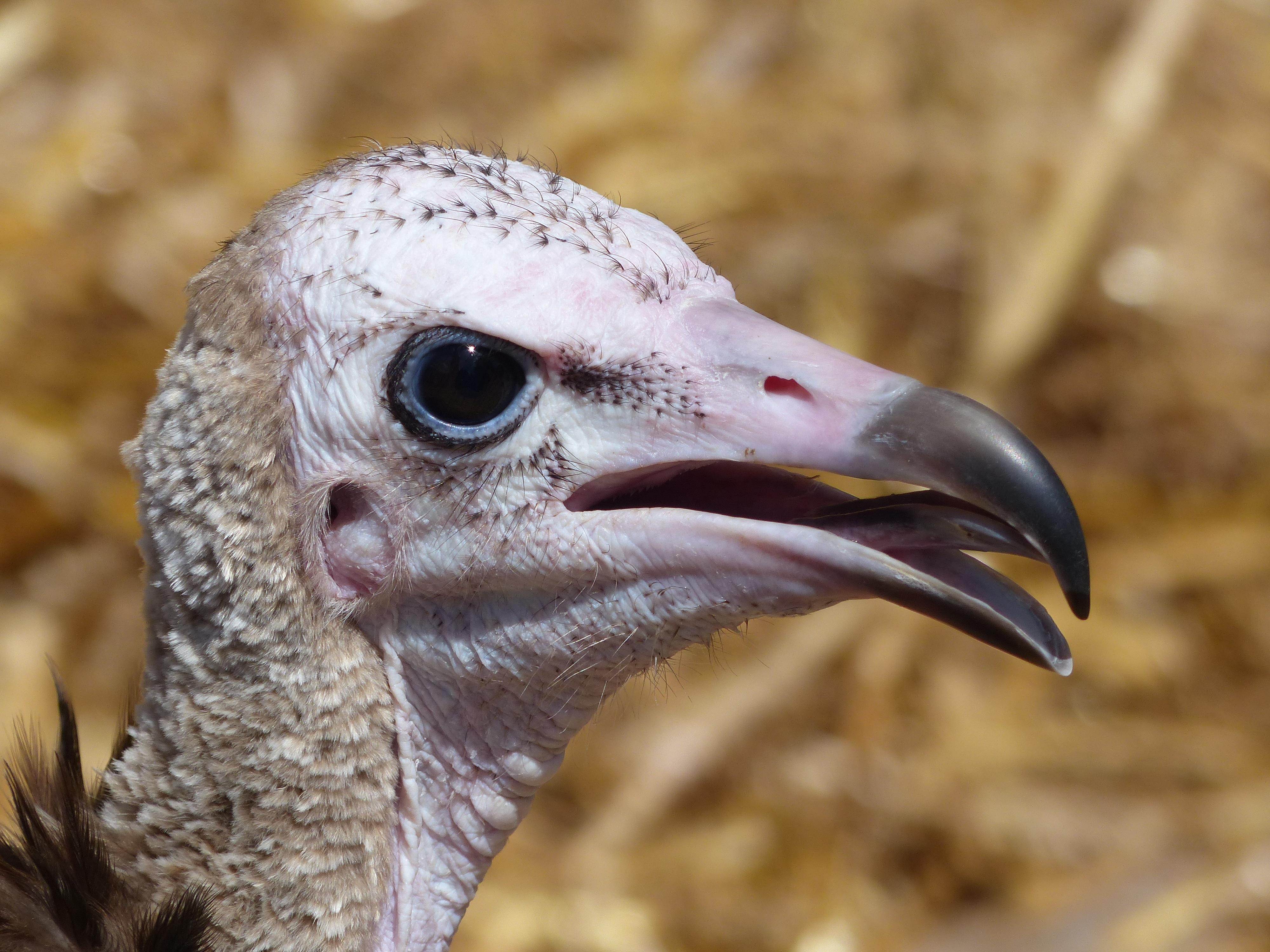 Hooded vulture (Necrosyrtes monachus) captive, medieval festival, Josselin, Brittany, France.